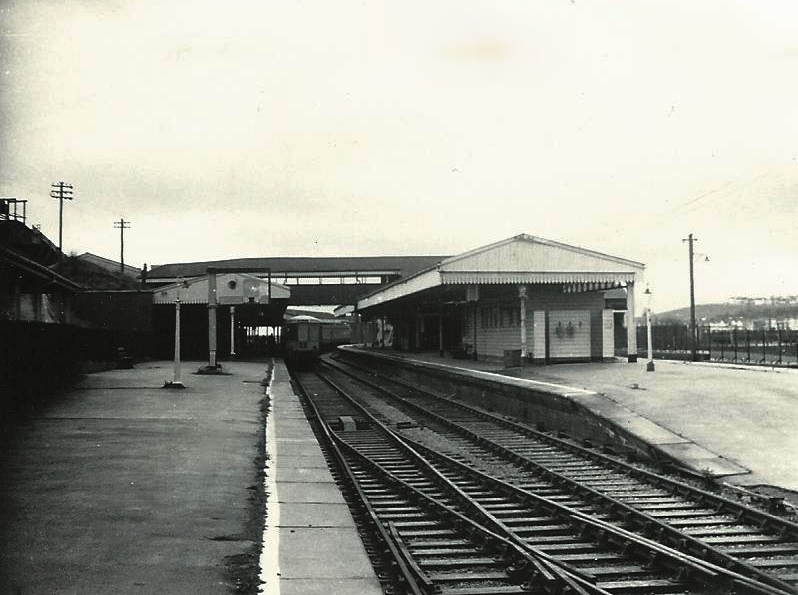 Barry Island Station, 05/67. Two Derby 3-car Suburban dmu's (Class 116) is in the station. Scanned photograph taken with a Kowa SET camera.